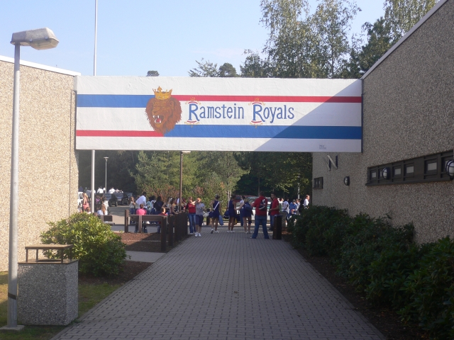 Front of Ramstein High School, showing "Ramsetin Royals" sign.